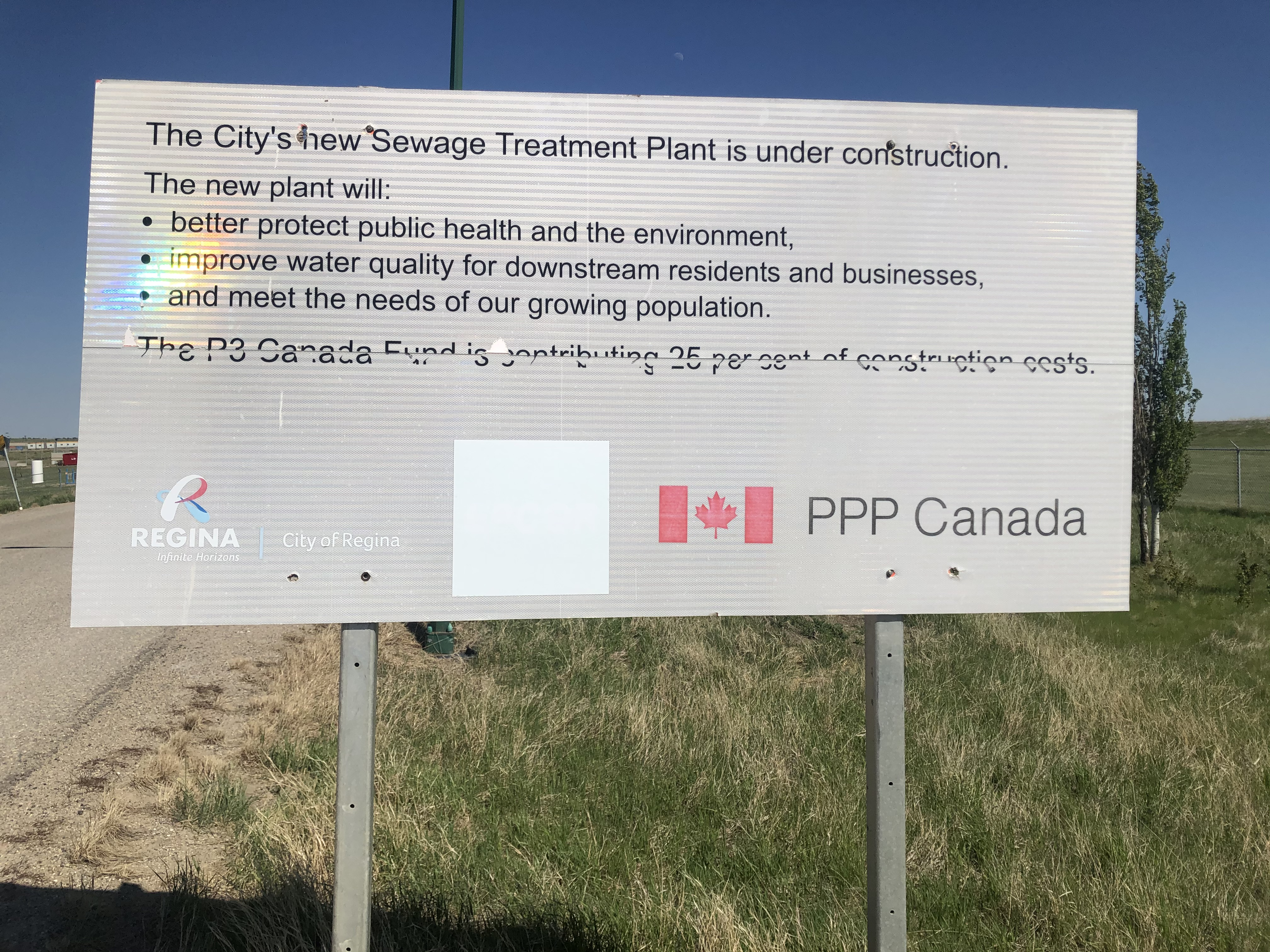 This is the sign at the entrance of the Regina Wastewater Treatment Plant. It says: "The City's new Sewage Treatment Plant is under construction. The new plant will: better protect public health and the environment, improve water quality for downstream residents and businesses, and meet the needs of our growing populations. The P3 Canada Fund is contributing 25 per cent of construction consts"